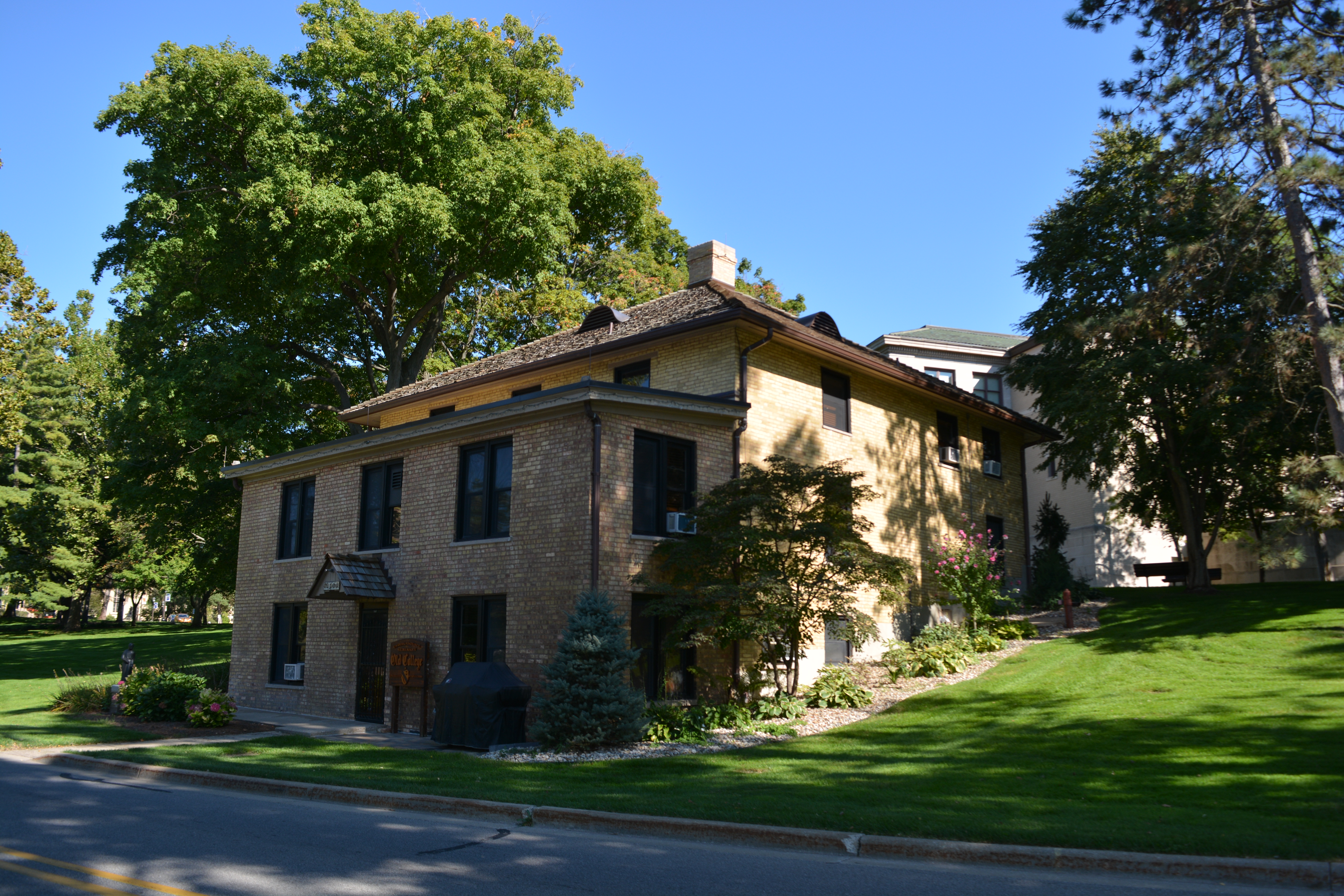 University of Notre Dame